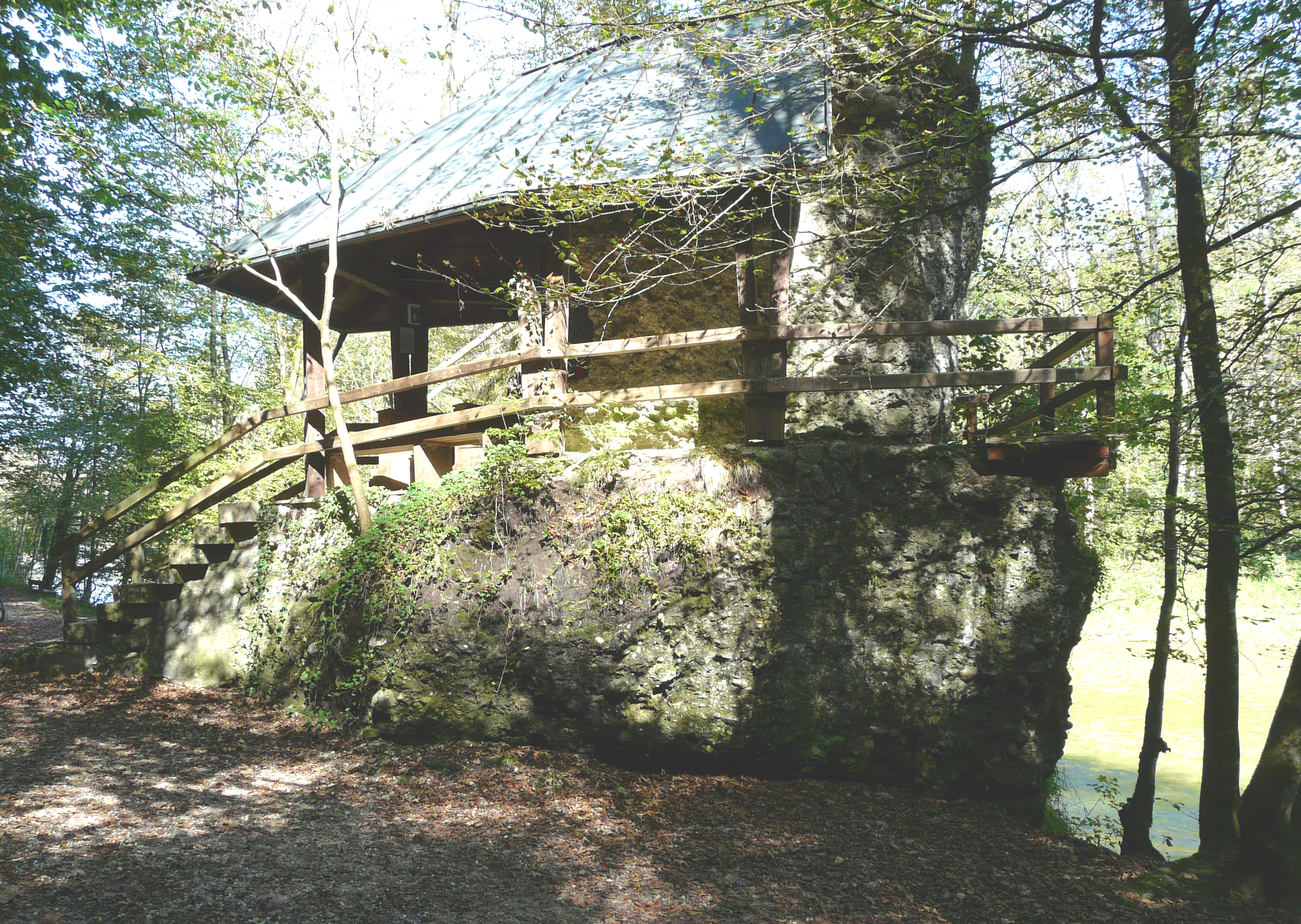 geotope, conglomerate rockfall, older-pleistocene, Geotop Nummer: 189R021